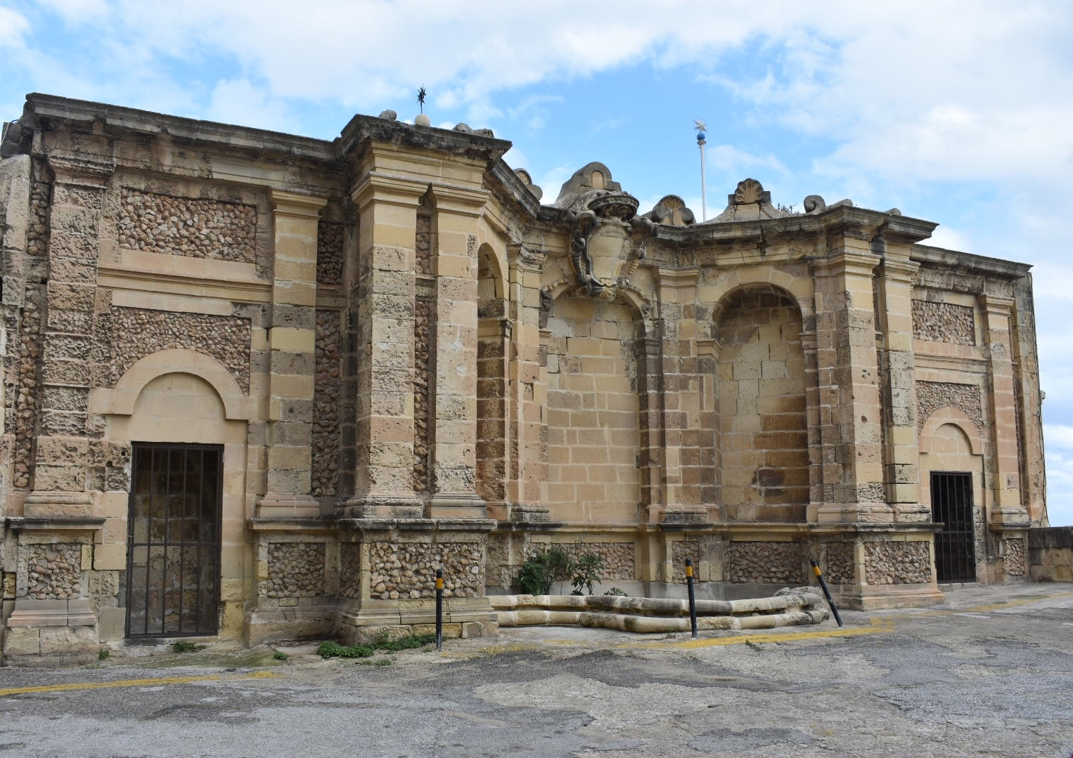 Gnien is-Sultan area